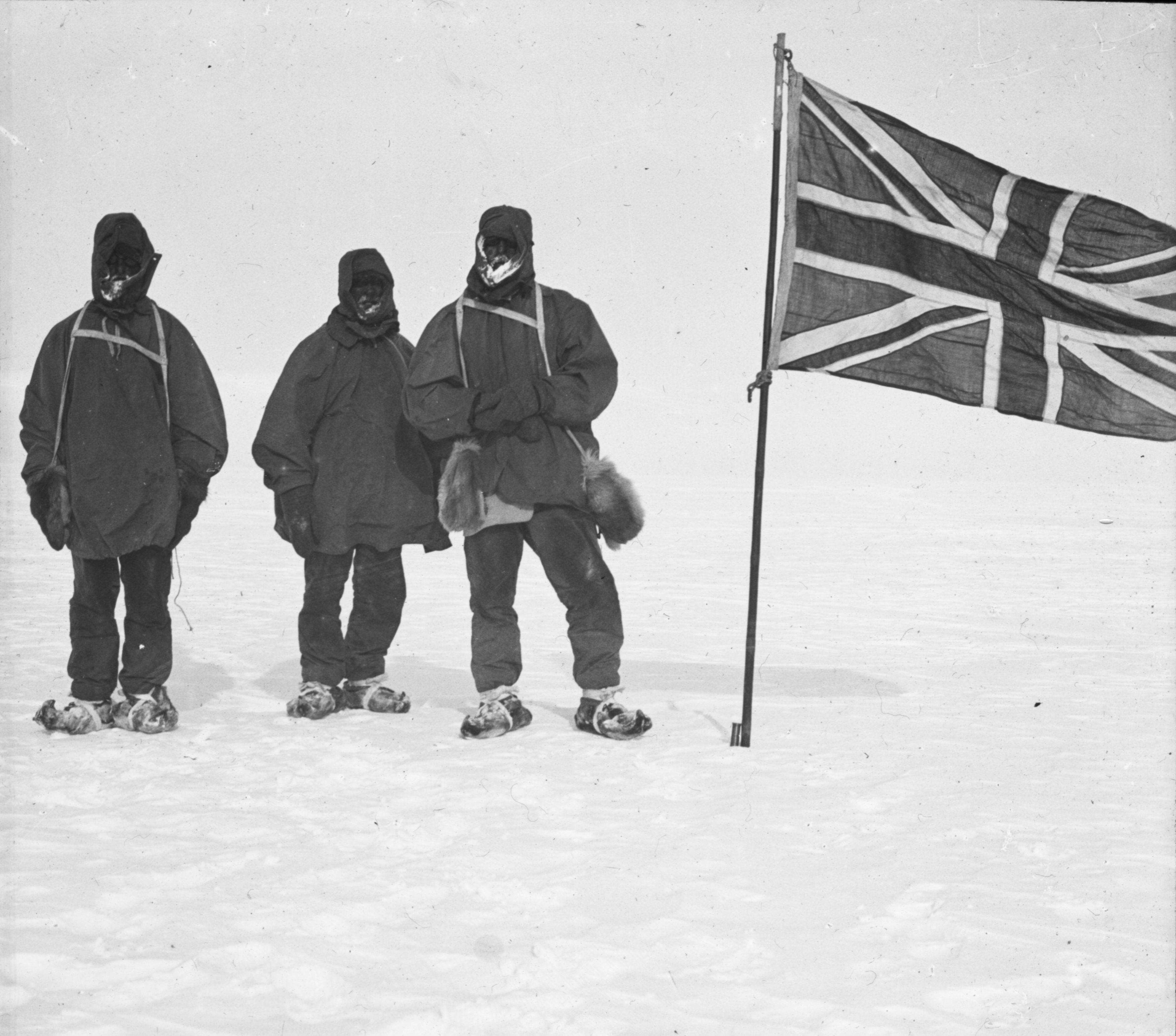 Photographs of the Nimrod Expedition (1907-09) to the Antarctic, led by Ernest Sheckleton